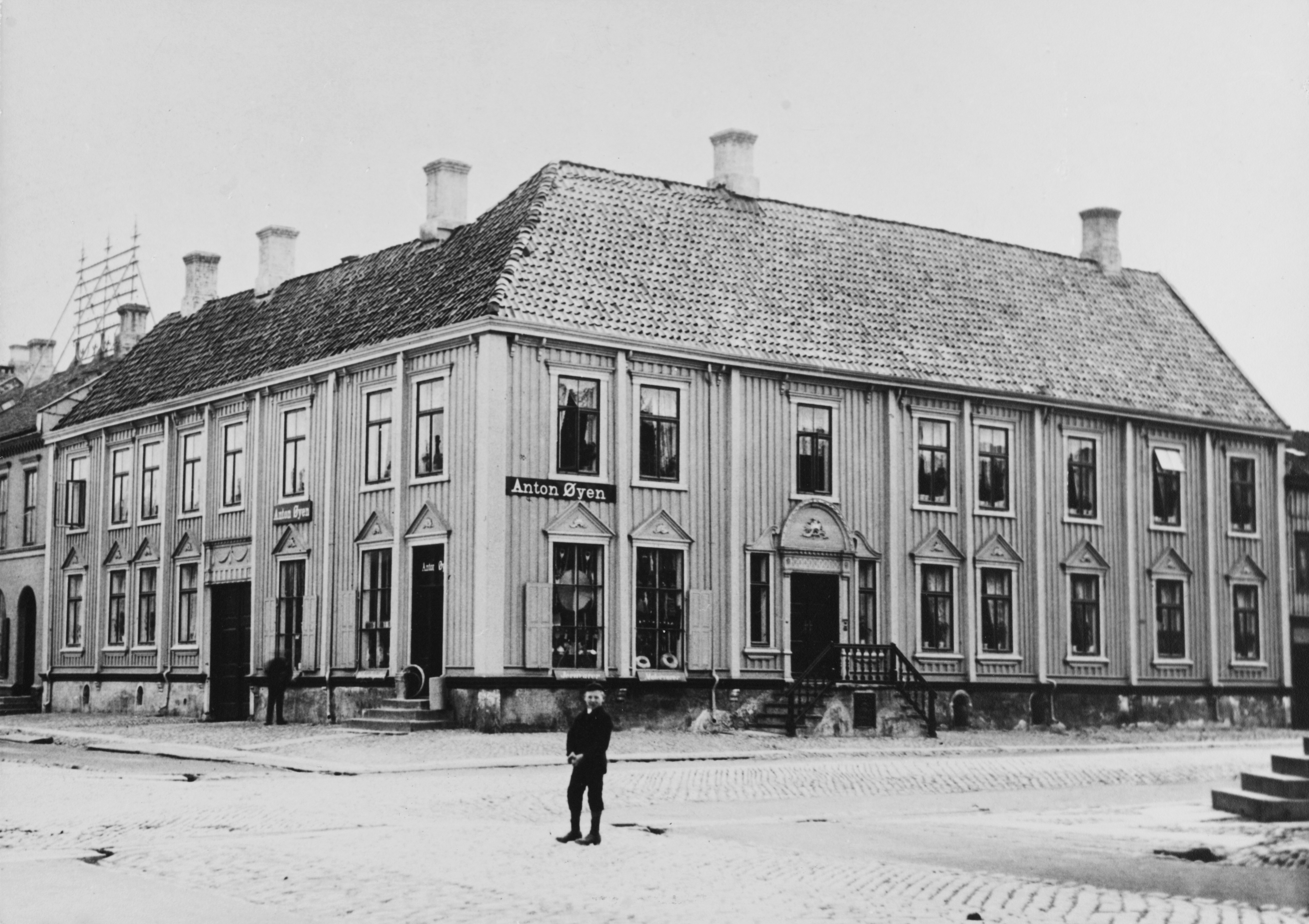 The building "Lille Stiftsgården", Prinsens gate 49, Trondheim, Norway. 18th century building. Partly destroyed by fire in 1967. the Municipality decided to demolish it, although it was a protected building. Today a building for commercial institutions/shop is erected on the estate